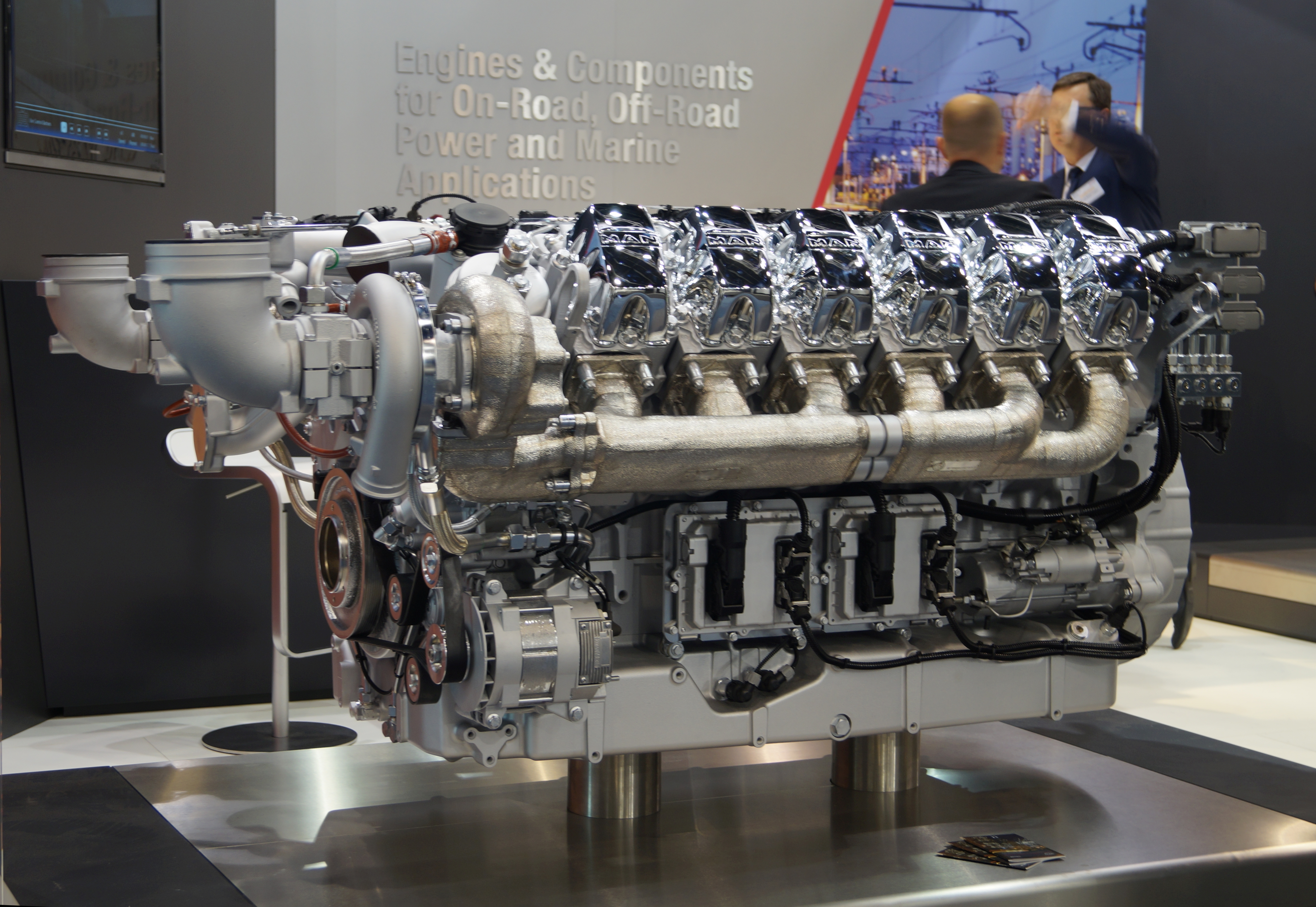 The making of this document was supported by Wikimedia Polska Association, within Wikigrant no. WG 2015-34. English | polski | +/− Silnik spalinowy (Diesla) MAN wystawiany na targach Trako 2015